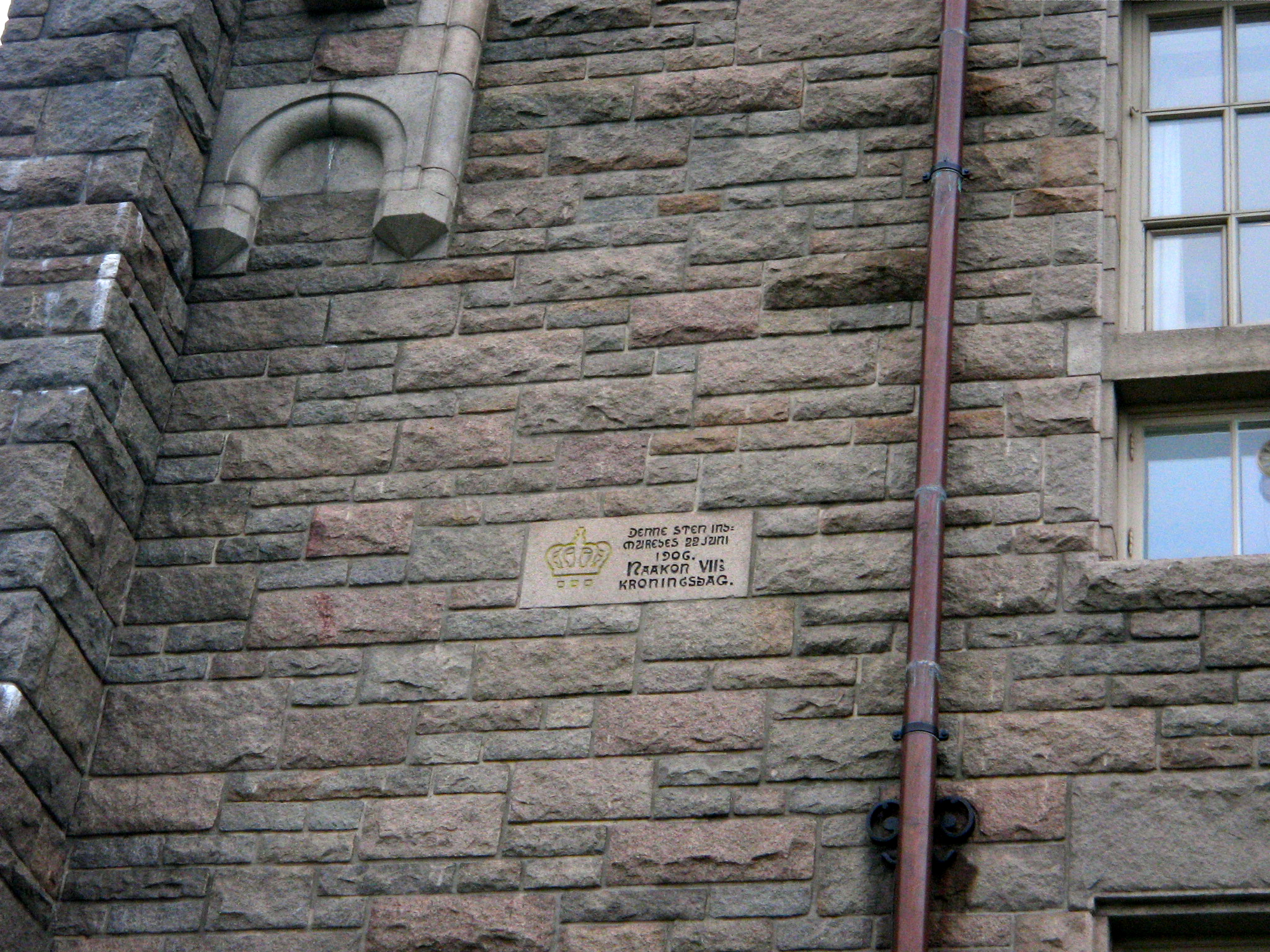 A facade stone commemorating the coronation of King Haakon VII. Hovedbygningen (=the main building) at Campus NTNU Gløshaugen, Trondheim. The building was erected for NTH (=The Norwegian Institute of Technology) in 1910. Architect: Bredo Greve